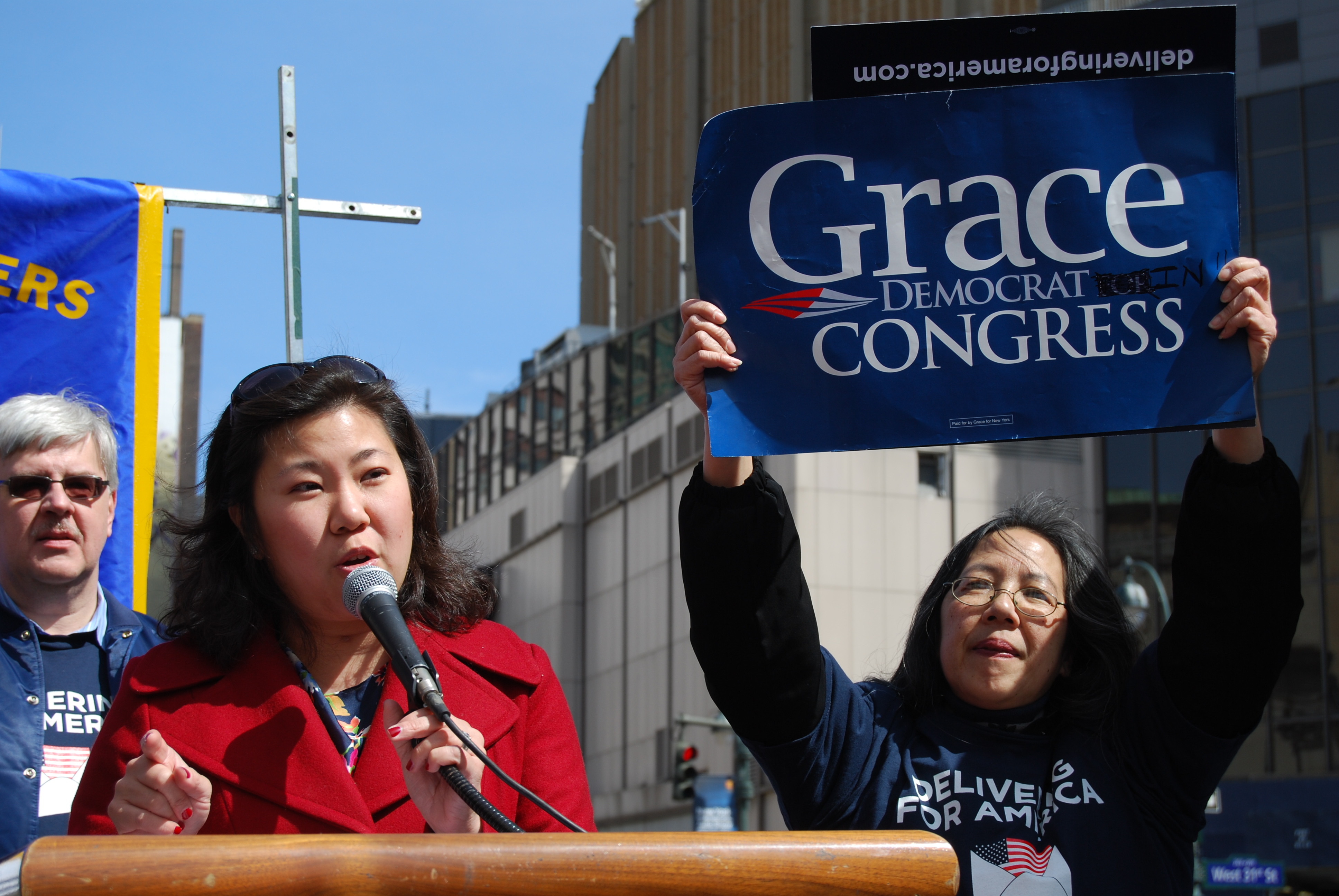 Congressional Representative Grace Meng (D, NY-6 CD) speaking at a rally organized by the National Association of Letter Carriers as part of their "Delivering For America" campaign (to save six day mail delivery).